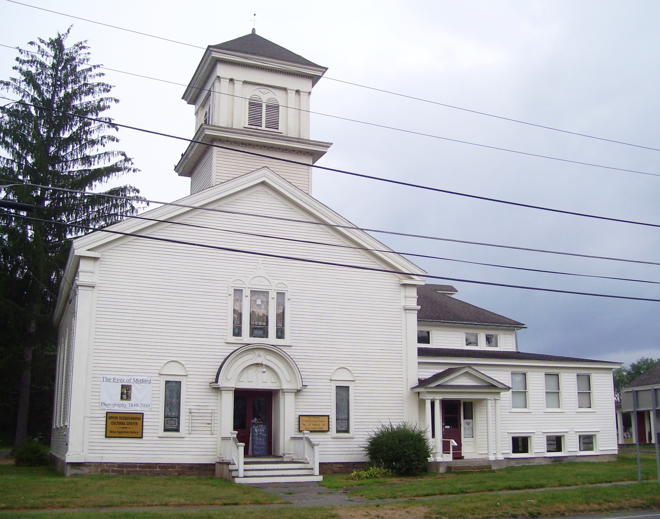 The Upper Susquehanna Cultural Center, formerly the Presbyterian Church of Milford, at 7 North Main Street in Milford, New York, was built in 1803-06.